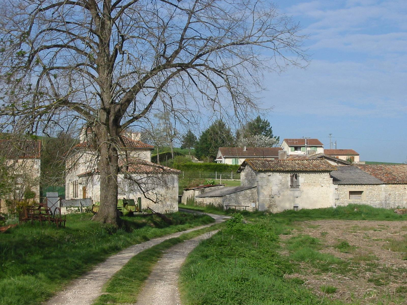 Typical houses near Claix, Charente, SW France